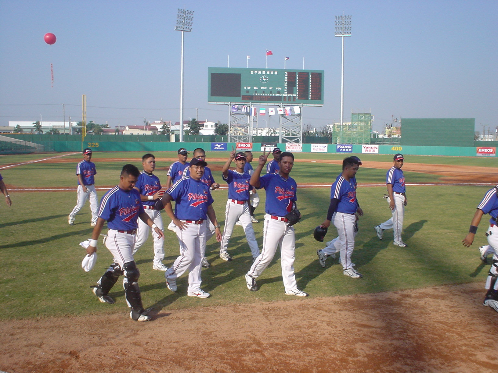 Philippine players thanking local Taichung fans for their support after a 10-0 loss to South Korea on September 9, 2006 in the 2006 Intercontinental Cup at Taichung Intercontinental Baseball Stadium in Taichung, Taiwan. Photo taken on September 9, 2006.